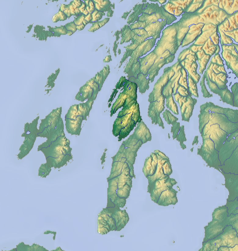 Argyll with Knapdale highlighted centre